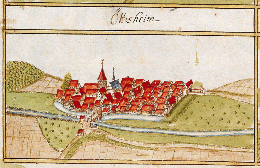 View of Ötisheim from the forest register books created by Andreas Kieser